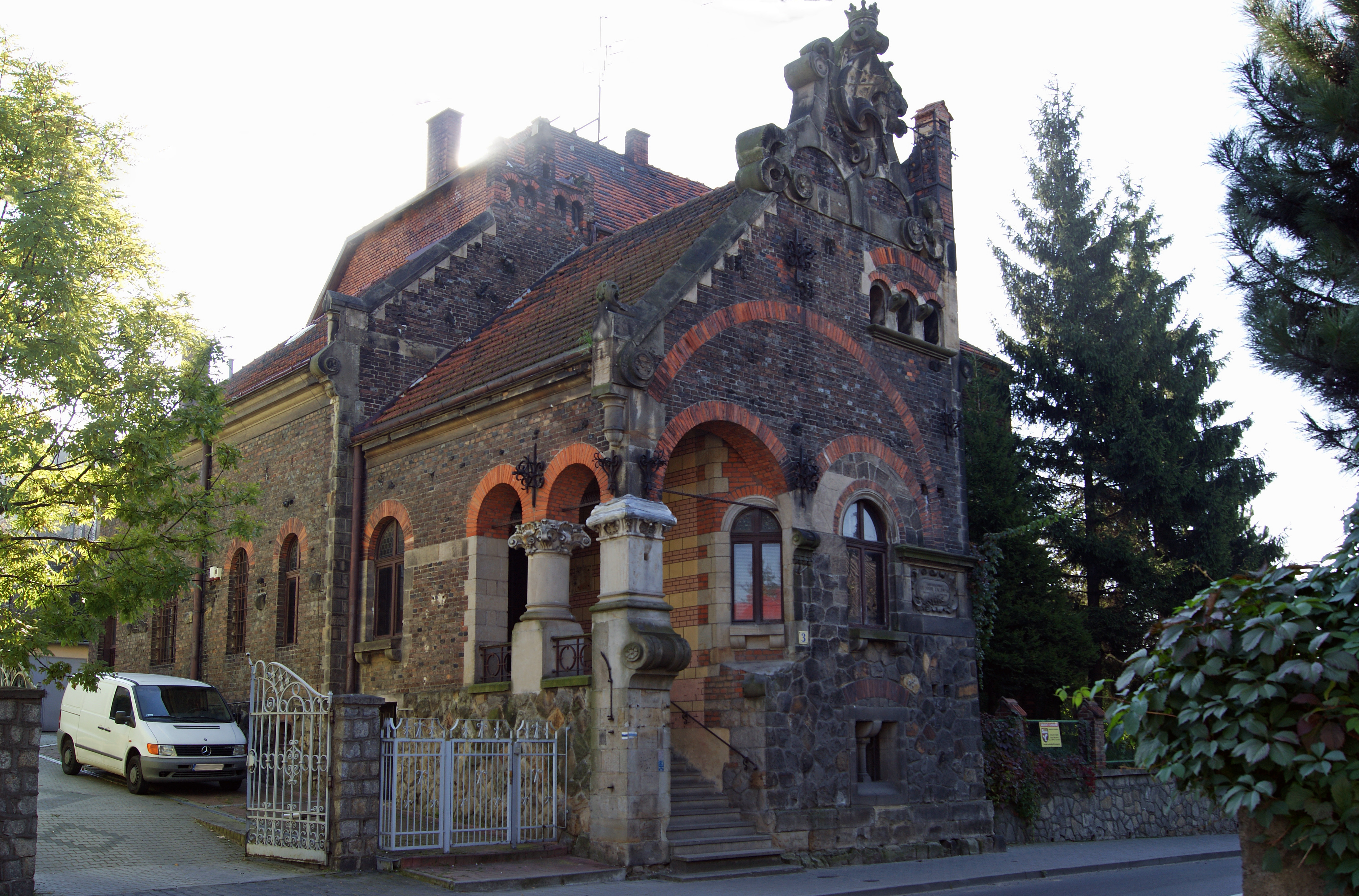 Koci Zamek villa, 1895 by arch. Teodor Talowski, 3 Konstytucji 3 Maja street, City of Bochnia, Poland